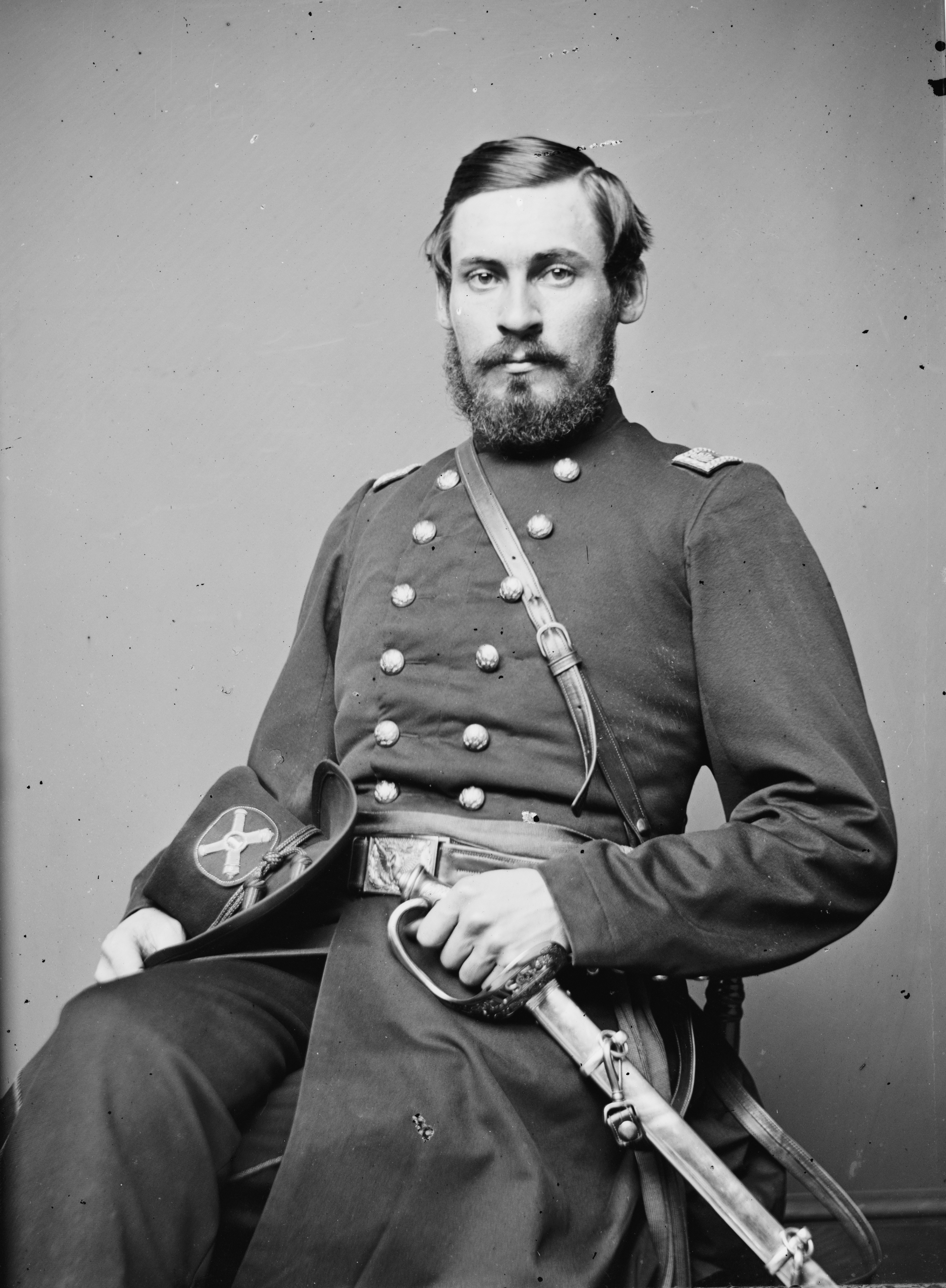 Title: Lt. Col. G.E. Chamberlain, 1st Vermont Art. Physical description: 1 negative